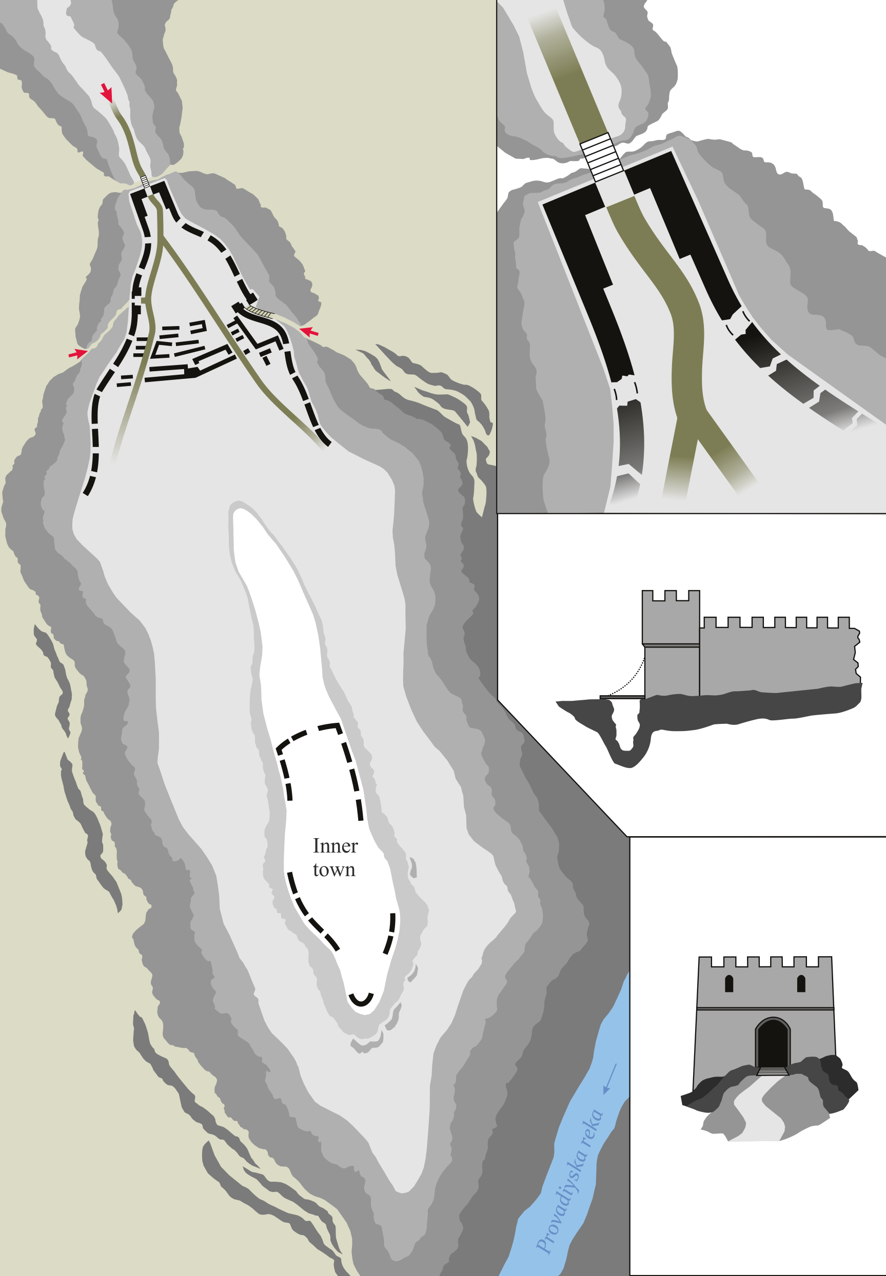 Plan of the medieval Bulgarian fortress Ovech Based on: [1]